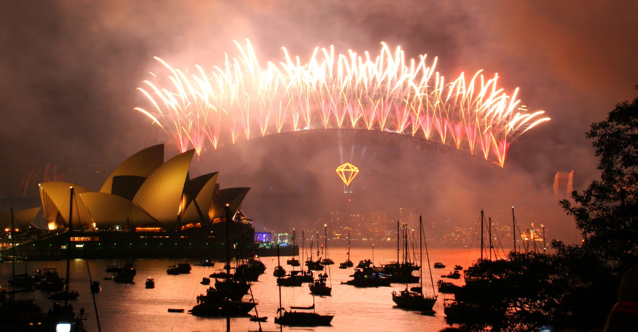 Sydney, Australia is one of the first major cities to ring in the New Year and its televised fireworks displays are watched by millions.